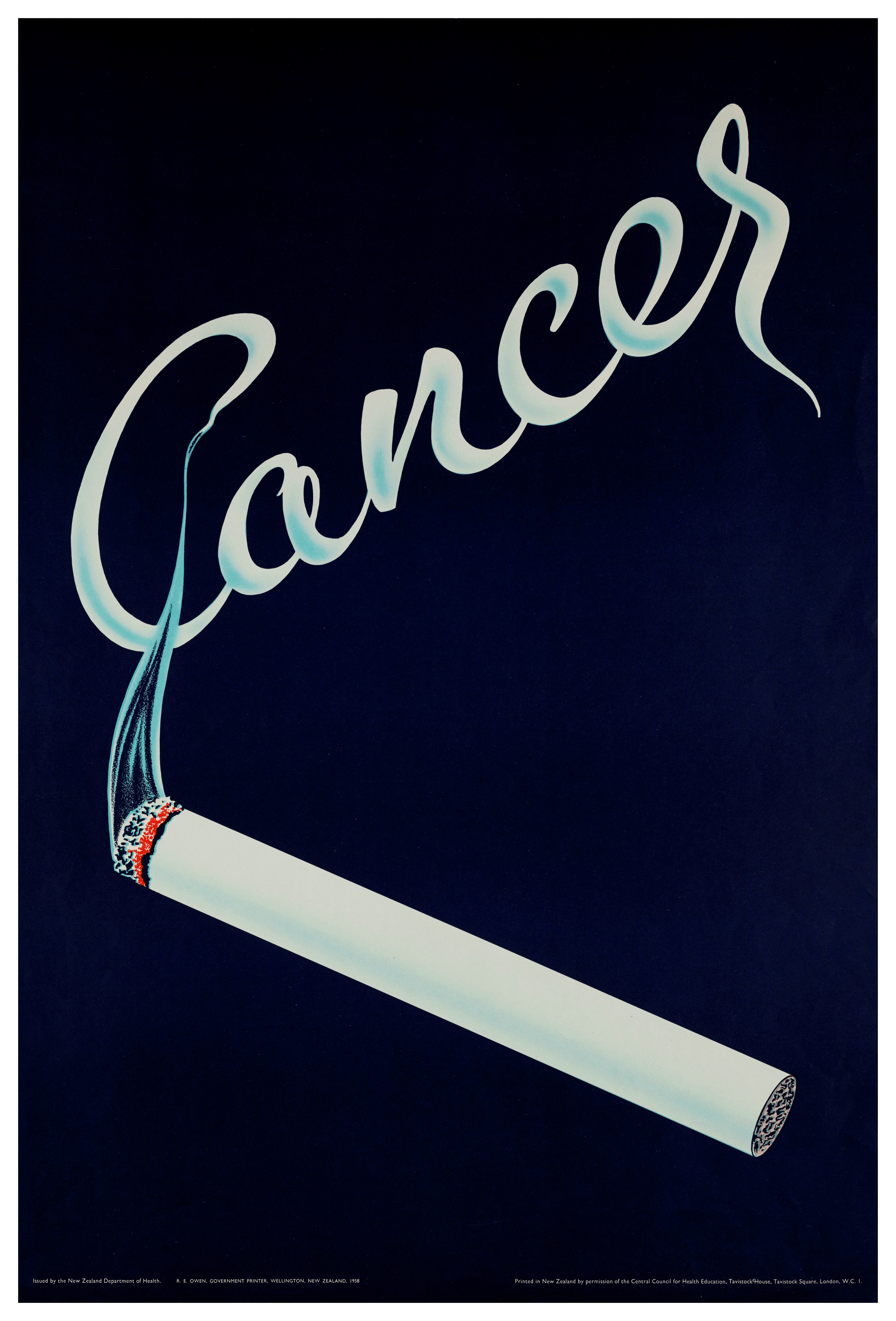 World No-Tobacco Day is observed around the world every year on 31 May. It is intended to encourage a 24-hour period of abstinence from all forms of tobacco consumption around the globe. The day is further intended to draw attention to the widespread prevalence of tobacco use and to negative health effects, which currently lead to nearly 6 million deaths each year worldwide, including 600,000 of which are the result of non-smokers being exposed to second-hand smoke. The member states of the World Health Organization (WHO) created World No Tobacco Day in 1987. In the past twenty years, the day has been met with both enthusiasm and resistance around the globe from governments, public health organizations, smokers, growers, and the tobacco industry. This poster was created in 1958 and issued by The New Zealand Department of Health. It was printed in New Zealand by permission of The Central Council for Health Education, Tavistock House Tavistock Square London W.C 1. Its striking design measures 725 x 487mm. Archives Reference: AAFB 24223 W2555 Box 6 For updates on our On This Day series and news from Archives New Zealand, follow us on Twitter: Material from Archives New Zealand